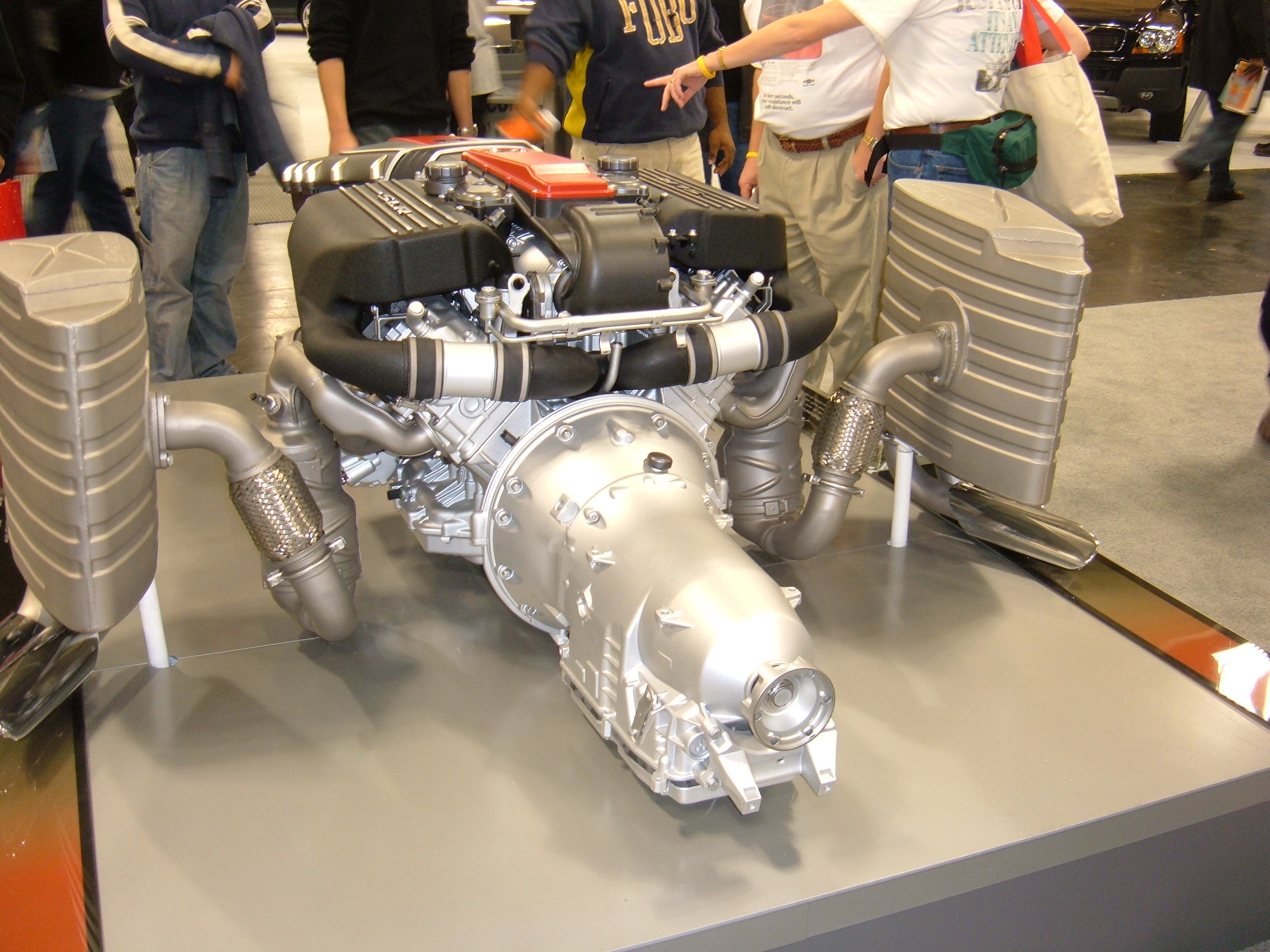 A 2005 Mercedes SLR engine at the 2004 San Francisco International Auto Show.